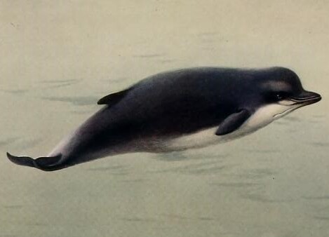 British mammals /